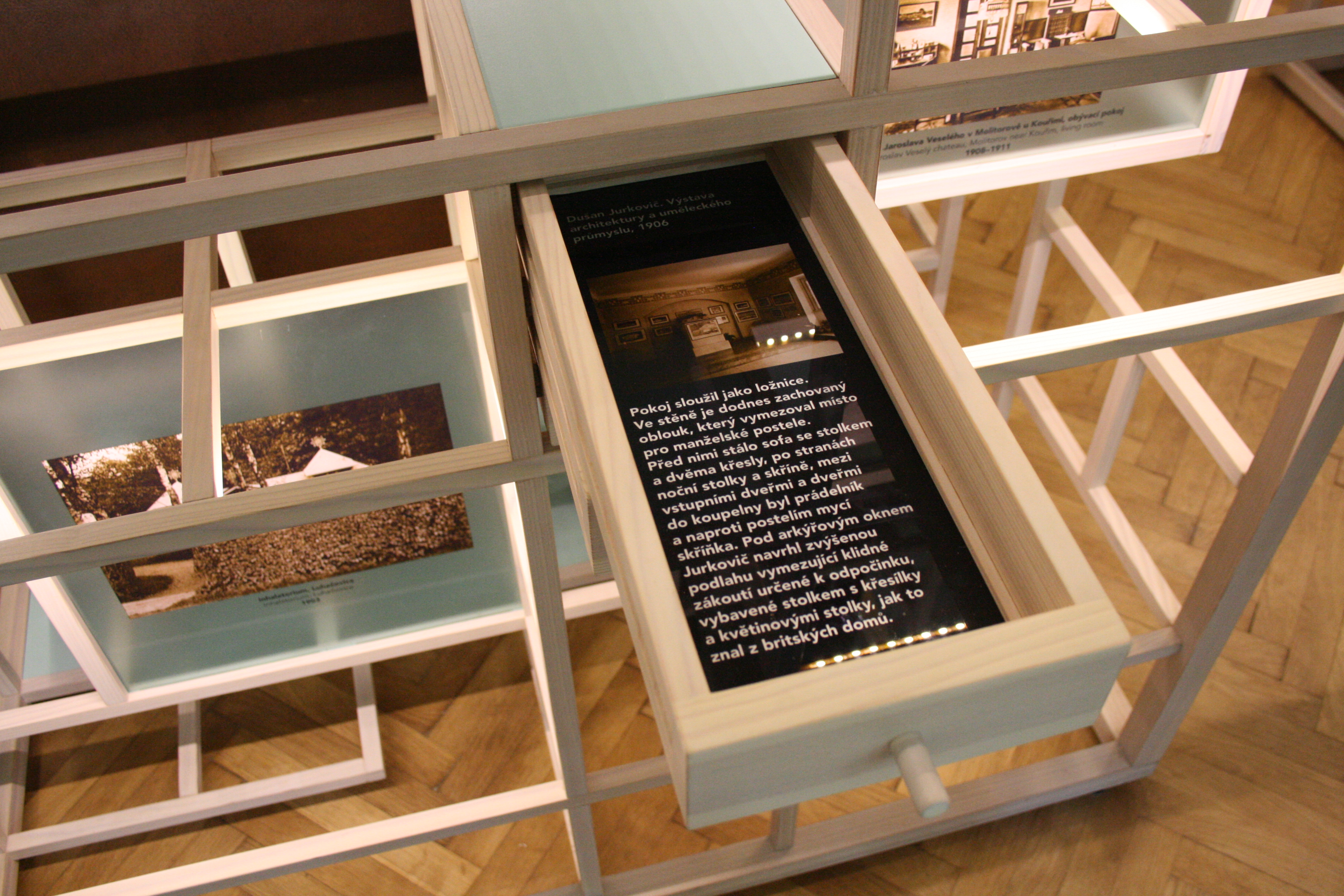 Villa of Dusan Jurkovic, Brno, Czech Republic.